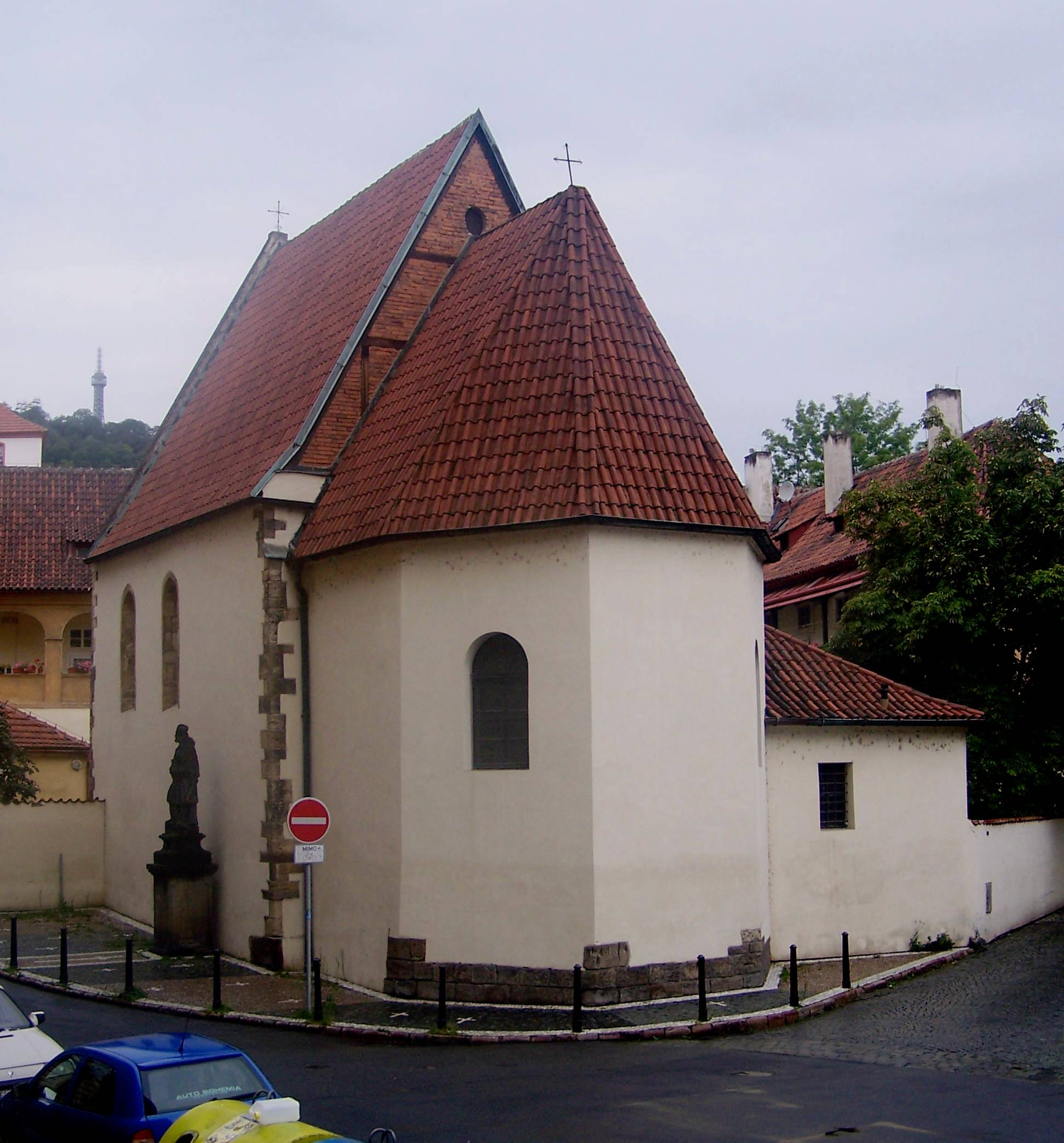 Church of St. John in Prague